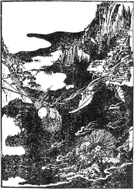 Akurojin-no-hi (悪路神の火, a ghostly fire from Mie Prefecture) from the Kansōsadan (閑窓瑣談)